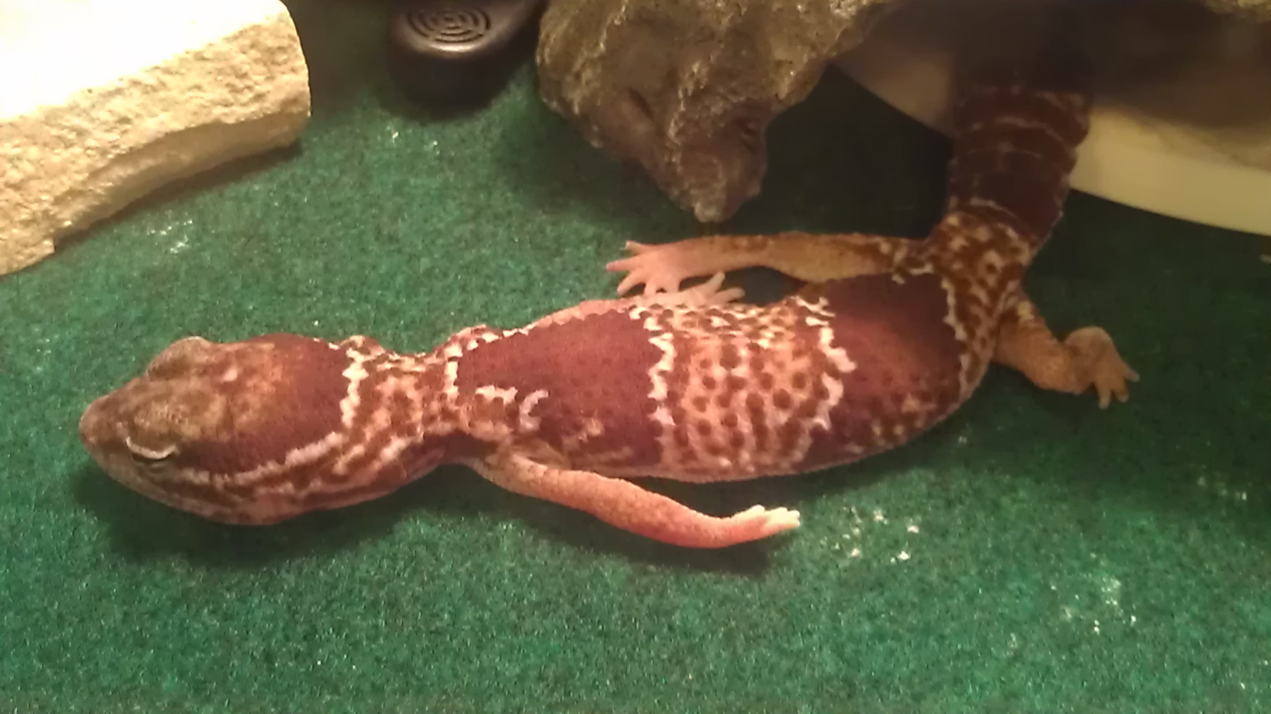 One of the strange ways geckos may sleep.